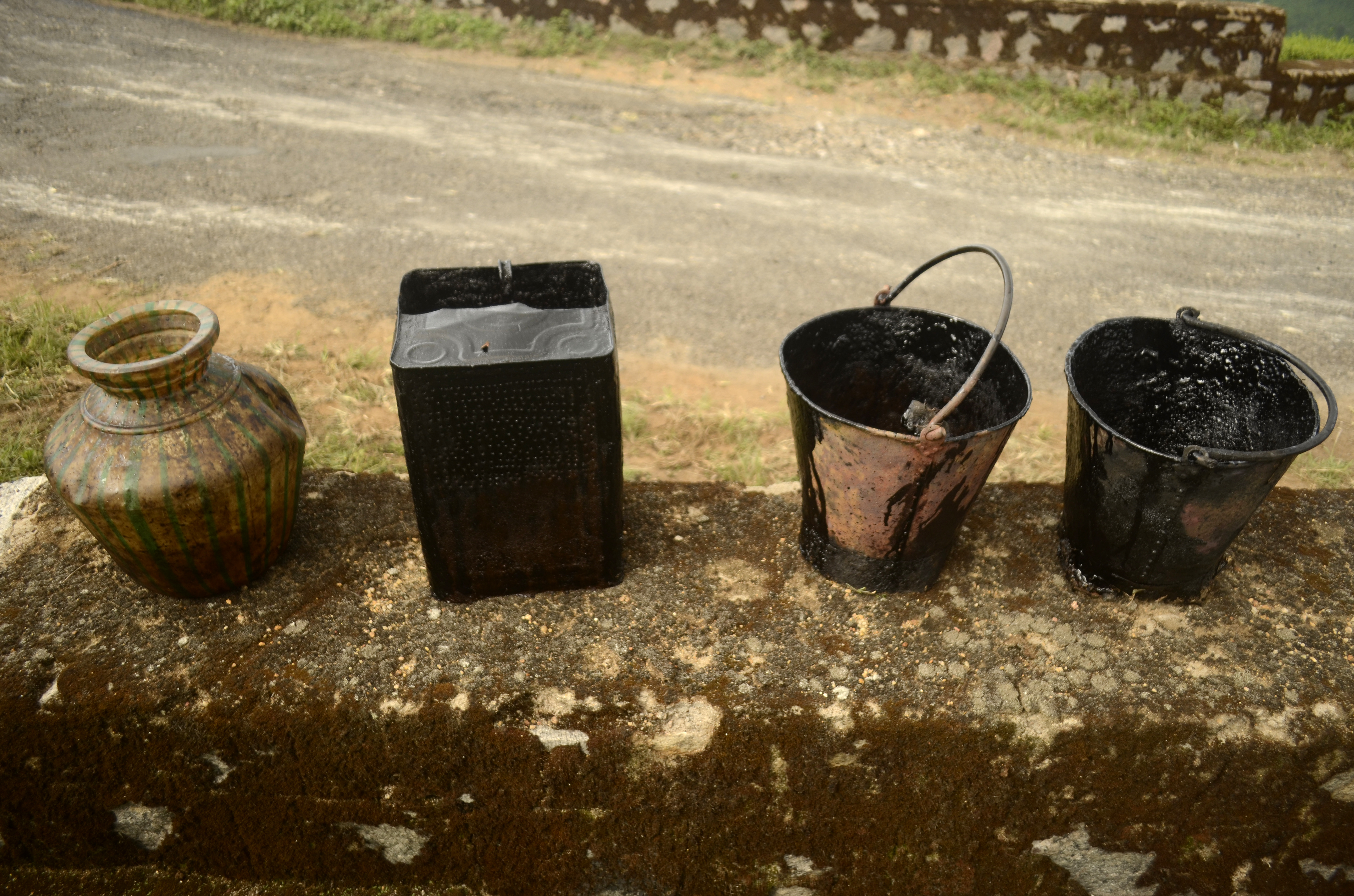 Utensils used in roadwork in anaimalai hills, southern western ghats. Plastic container to collect water (பிளாஸ்டிக் குடம்), Perforated Oil tin to spray tar on the road, iron buckets to carry tar.